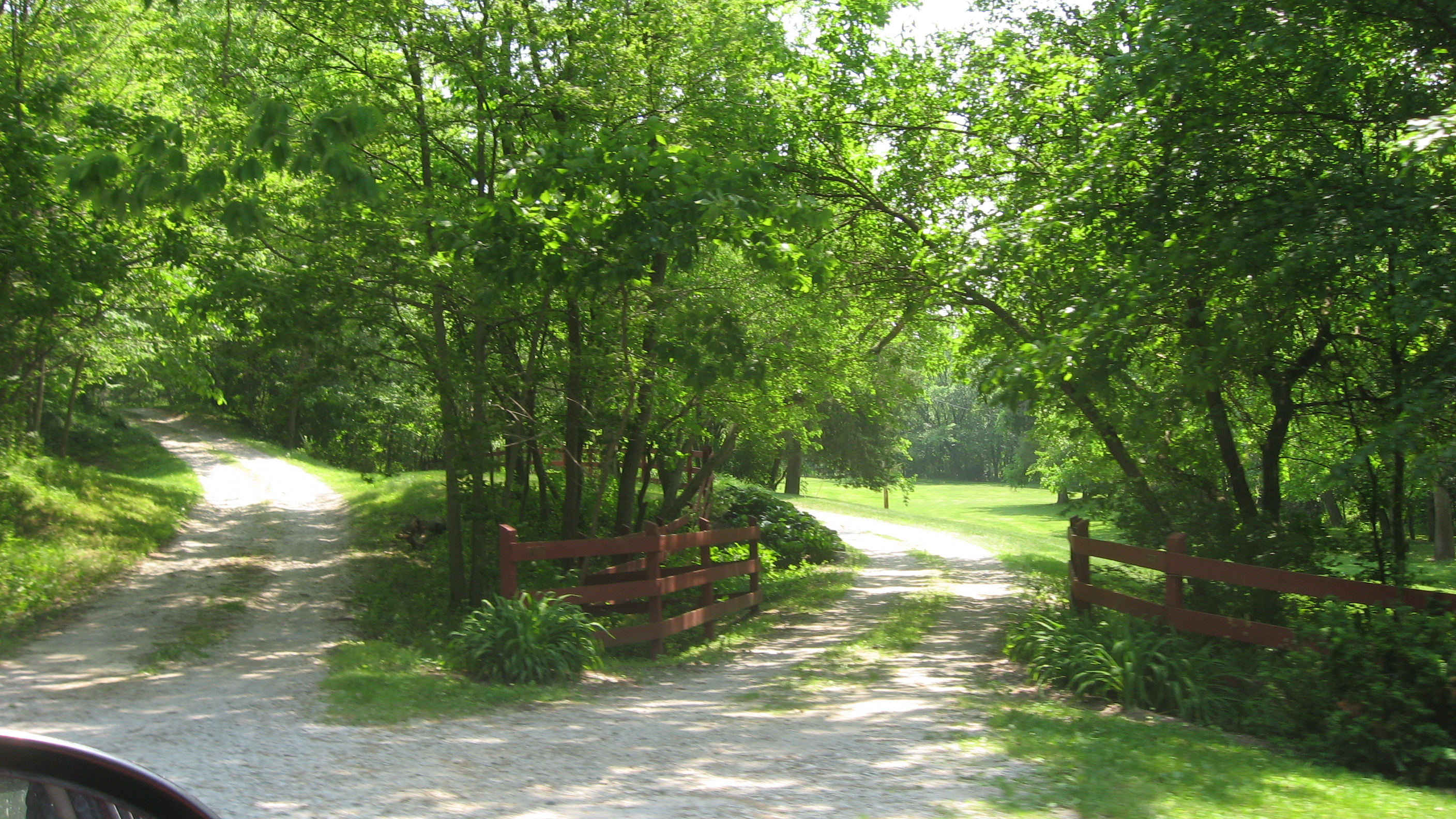 Driveway to the Baum-Shaeffer Farm, located at 6678 W. 200N southeast of Delphi in Deer Creek Township, Carroll County, Indiana, United States. Built starting in 1830, the farm buildings are listed on the National Register of Historic Places.